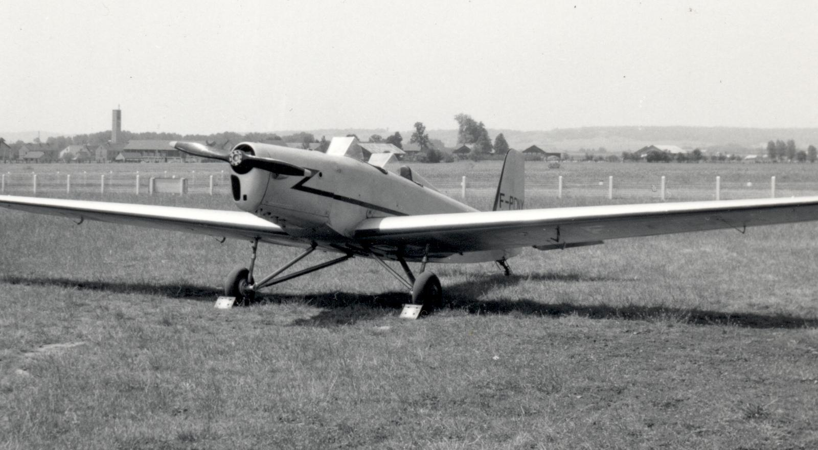 Mauboussin 123 aircraft at Persan-Beaumont airfield near Paris